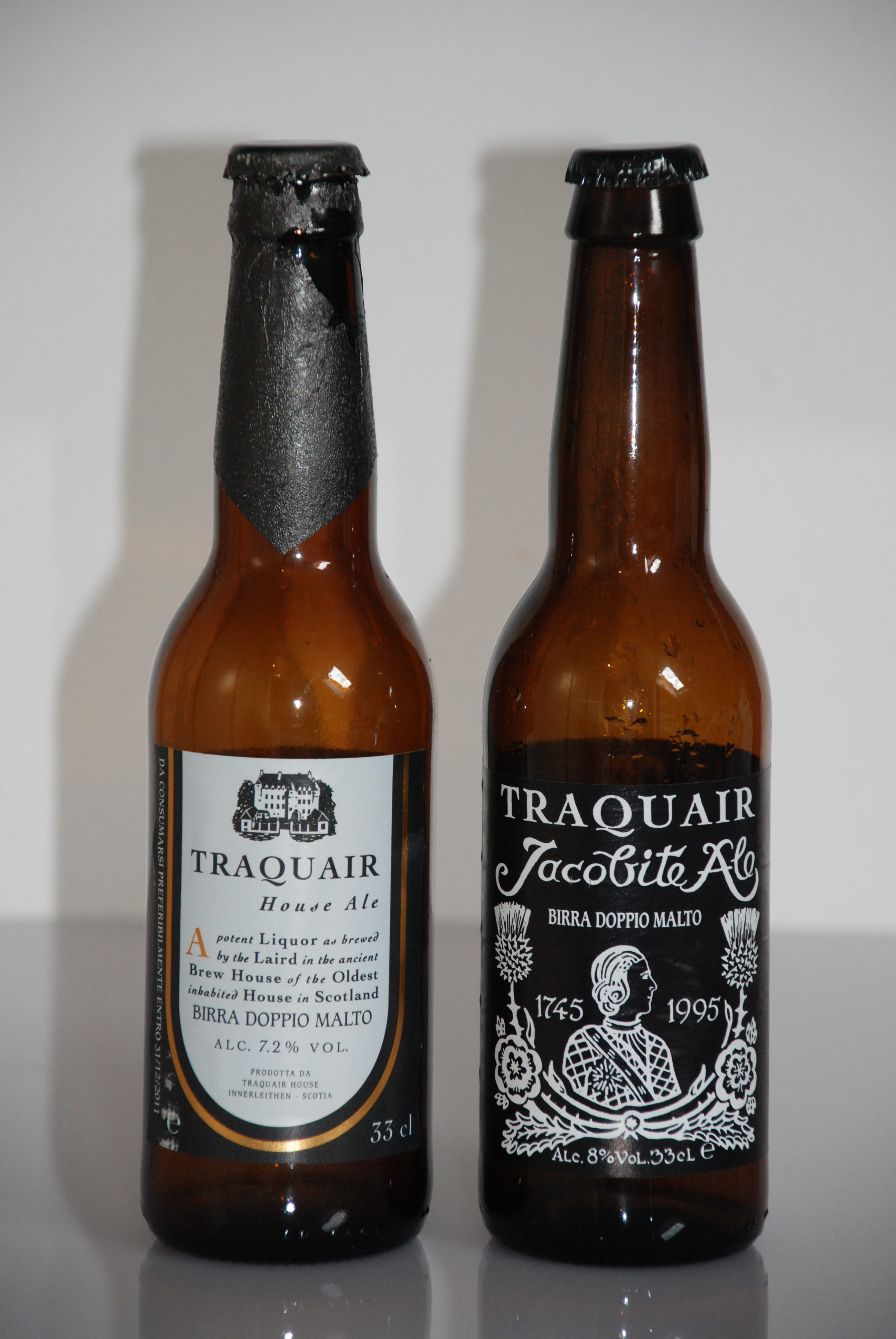 Two bottles of Traquair House beer: House Ale (left) and Jacobite Ale (right)